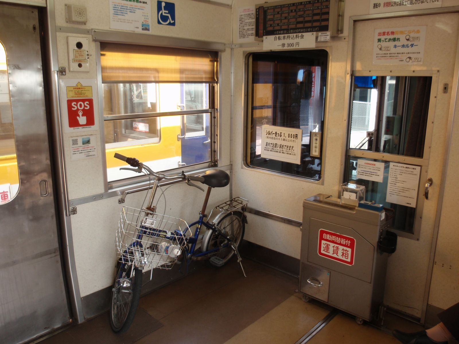 Bicycle in EMU Type 2100 by Ichibata Electric Railway(BATADEN).